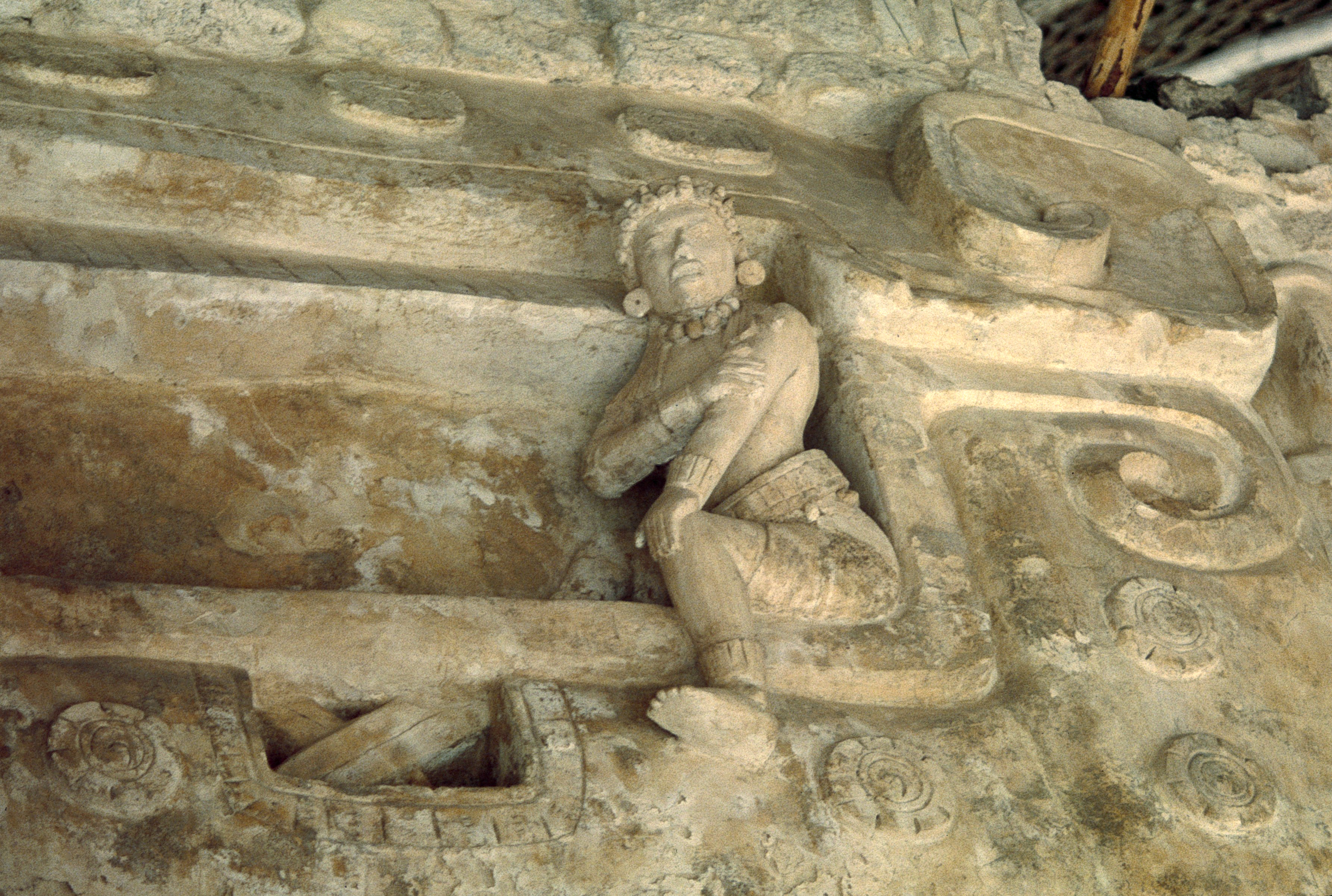 Ek' Balam, Yucatan, Mexico: Structure 1 - Detail of dragon mouth entrance